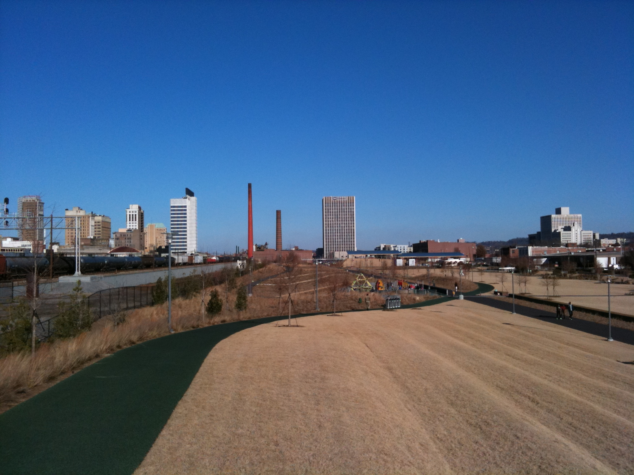 A view towards the east from the northwest corner overlook in Railroad Park, Birmingham Alabama.